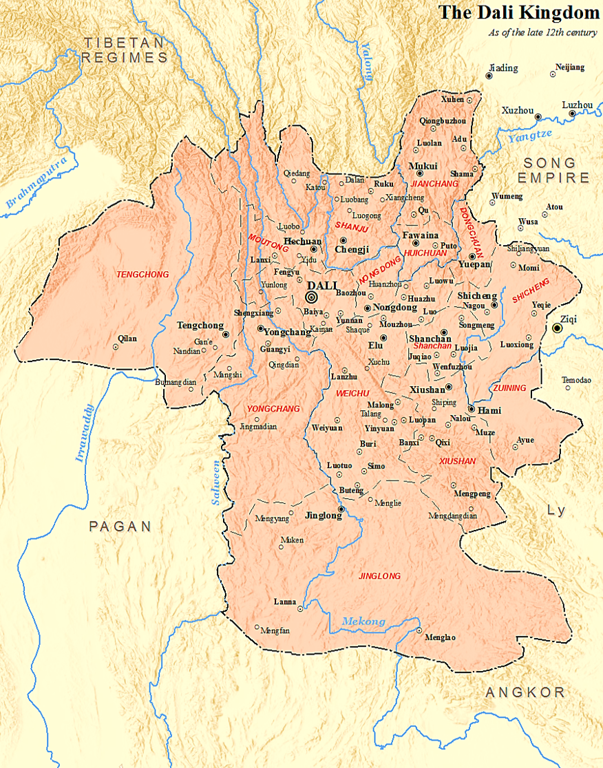 Map of the Dali Kingdom and its administrative divisions in late 12th century when it was at its greatest extent.